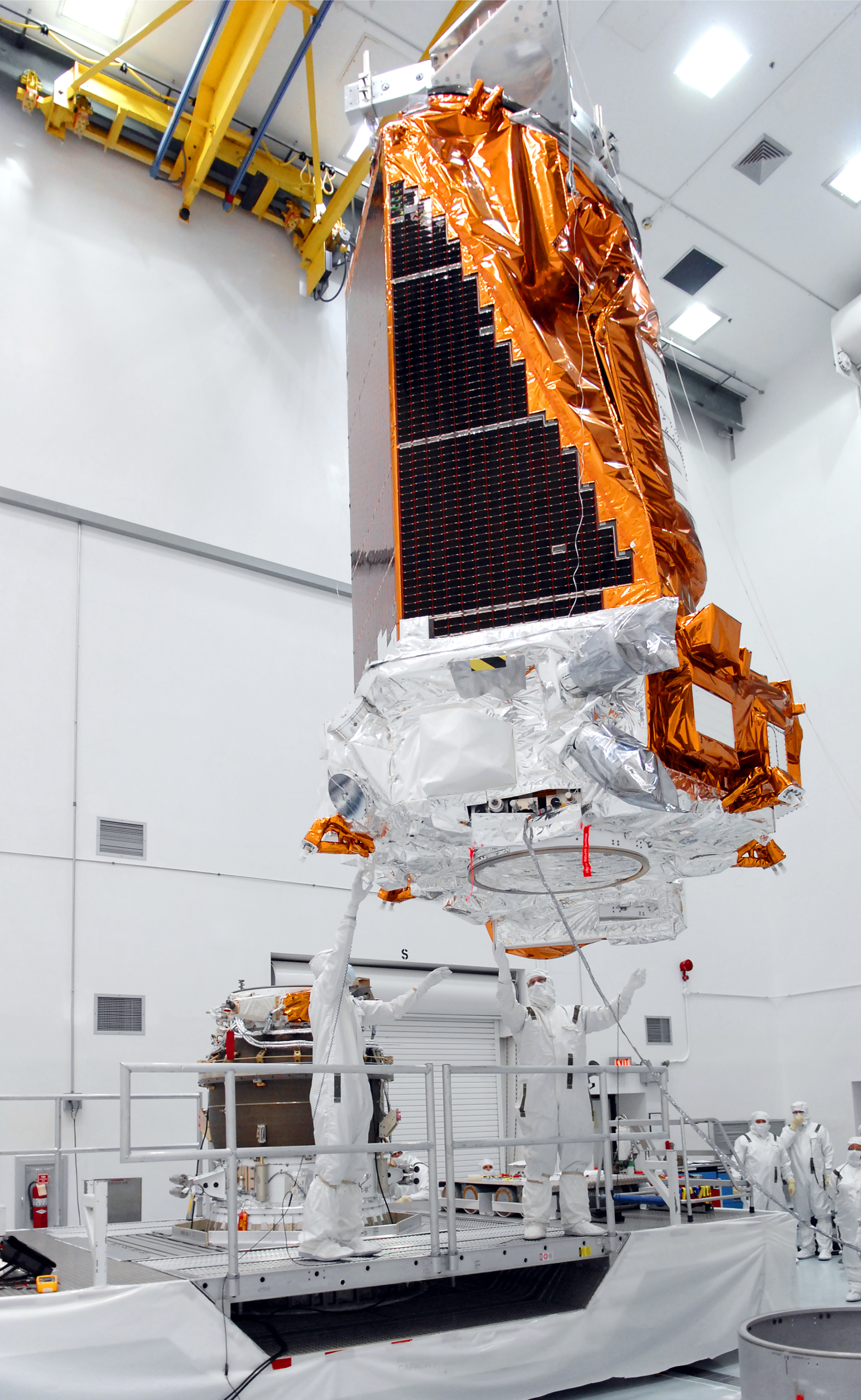 Kepler put with a crane to the third stage of its Delta II 7925 for assembly on it.